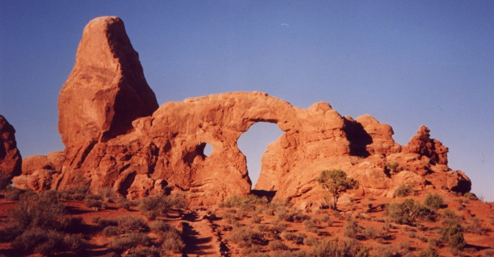 larger image of my photo of Turret Arch taken Spring 1998